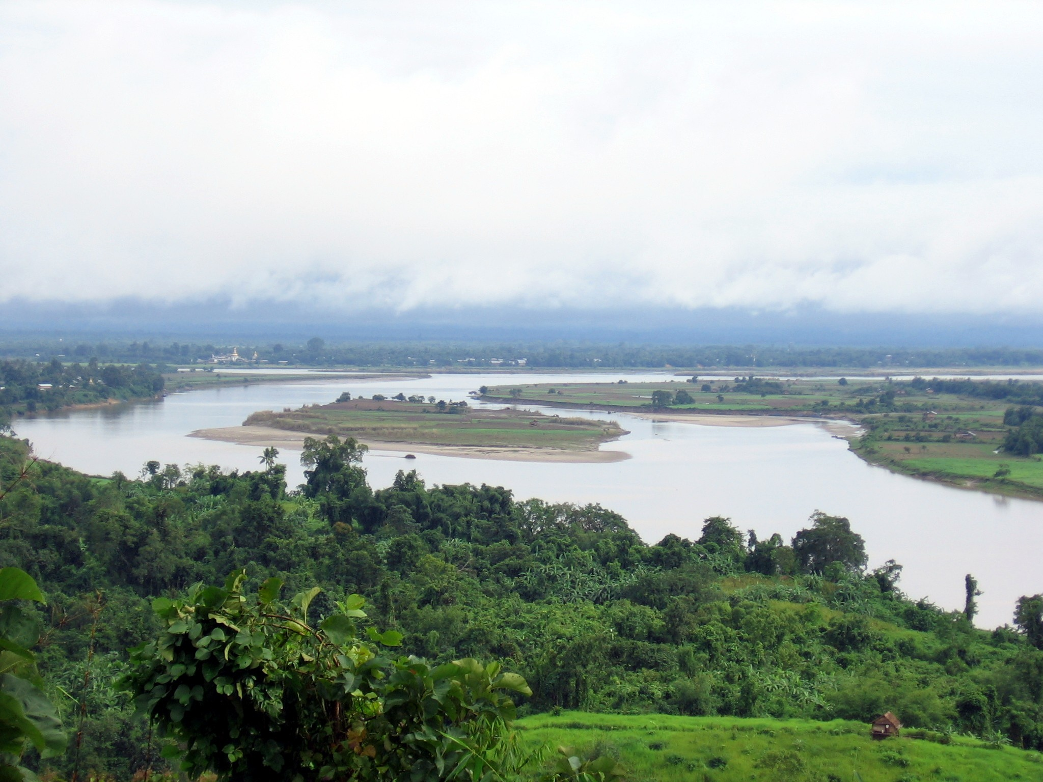 View of Ayeyarwady River near Bhamo (Myanmar) with the mouth of the Taping River on the left by the pagoda.